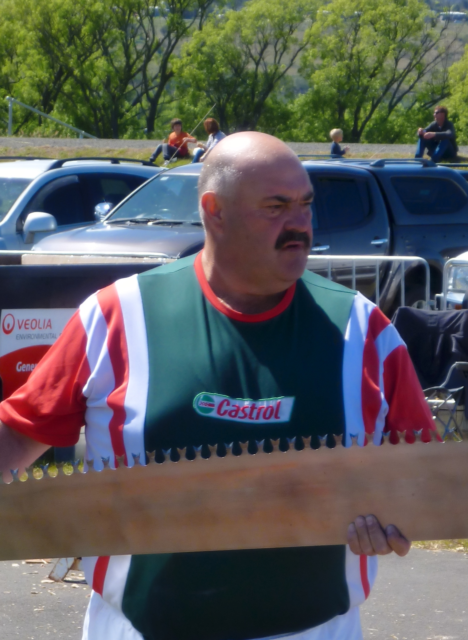 Australian axeman David Foster at the Launceston Show, 2012 just prior to competing in and winning the two-man saw event.